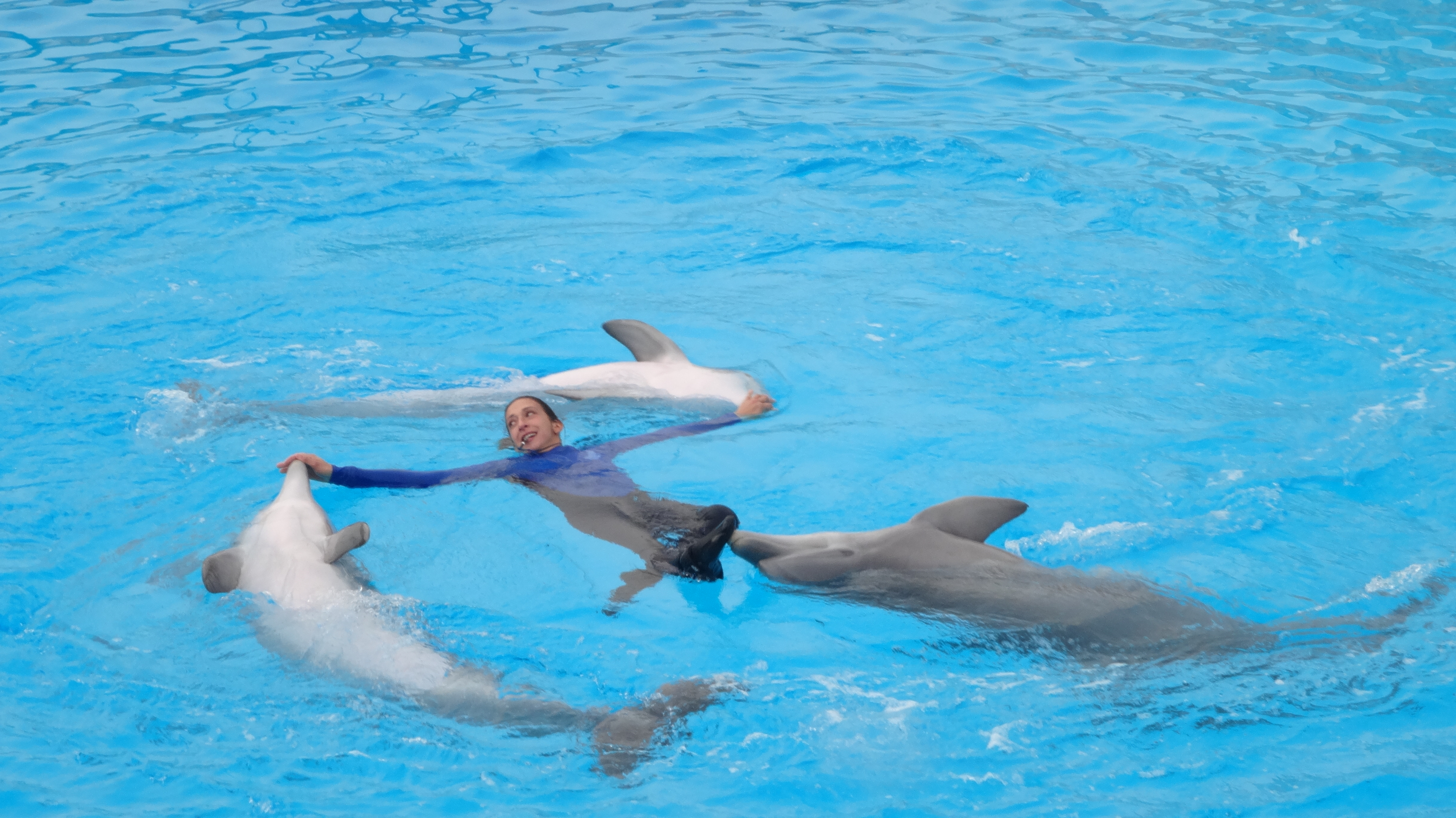 Spectacle avec Dauphins au Parc Astérix 2